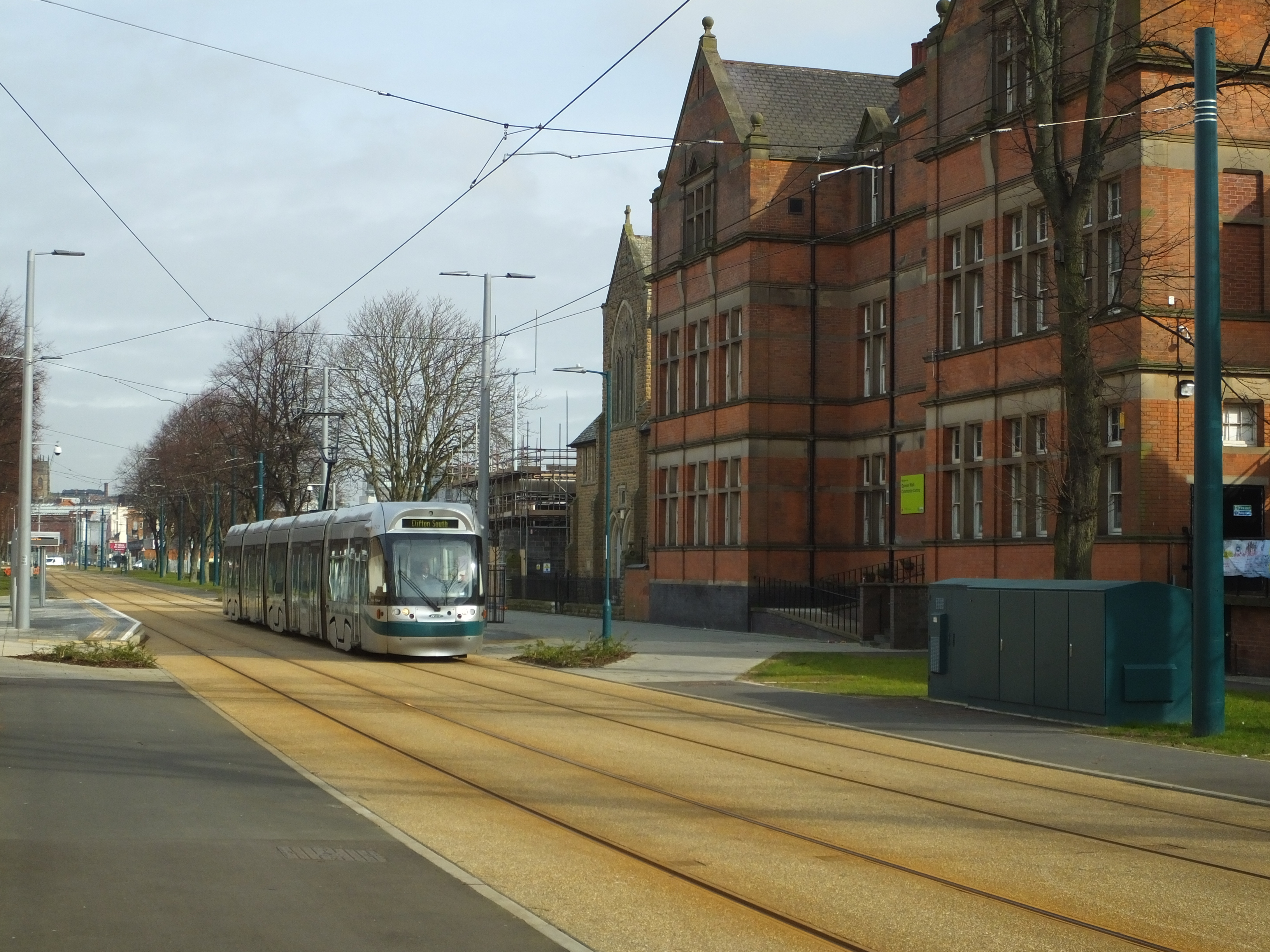 The Meadows, Nottingham (NG2) is a large Radburn style housing estate, south of the castle in Nottingham.